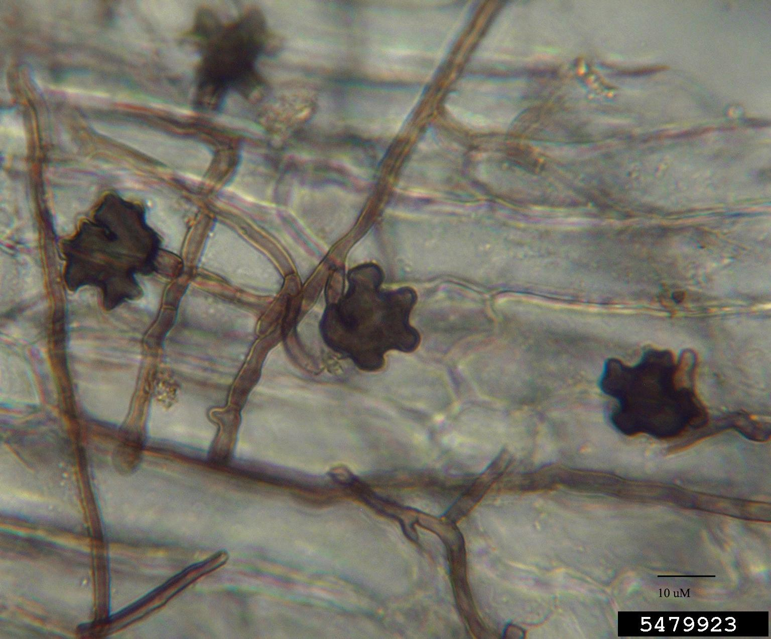 take-all root rot Geaumannomyces graminis var. graminis at Cenchrus setaceus. Lobed hyphopodia and dark mycelia in root tissue; Cultivar is 'Fireworks'